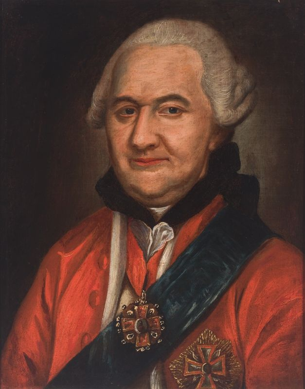 Jan Andrzej Borch